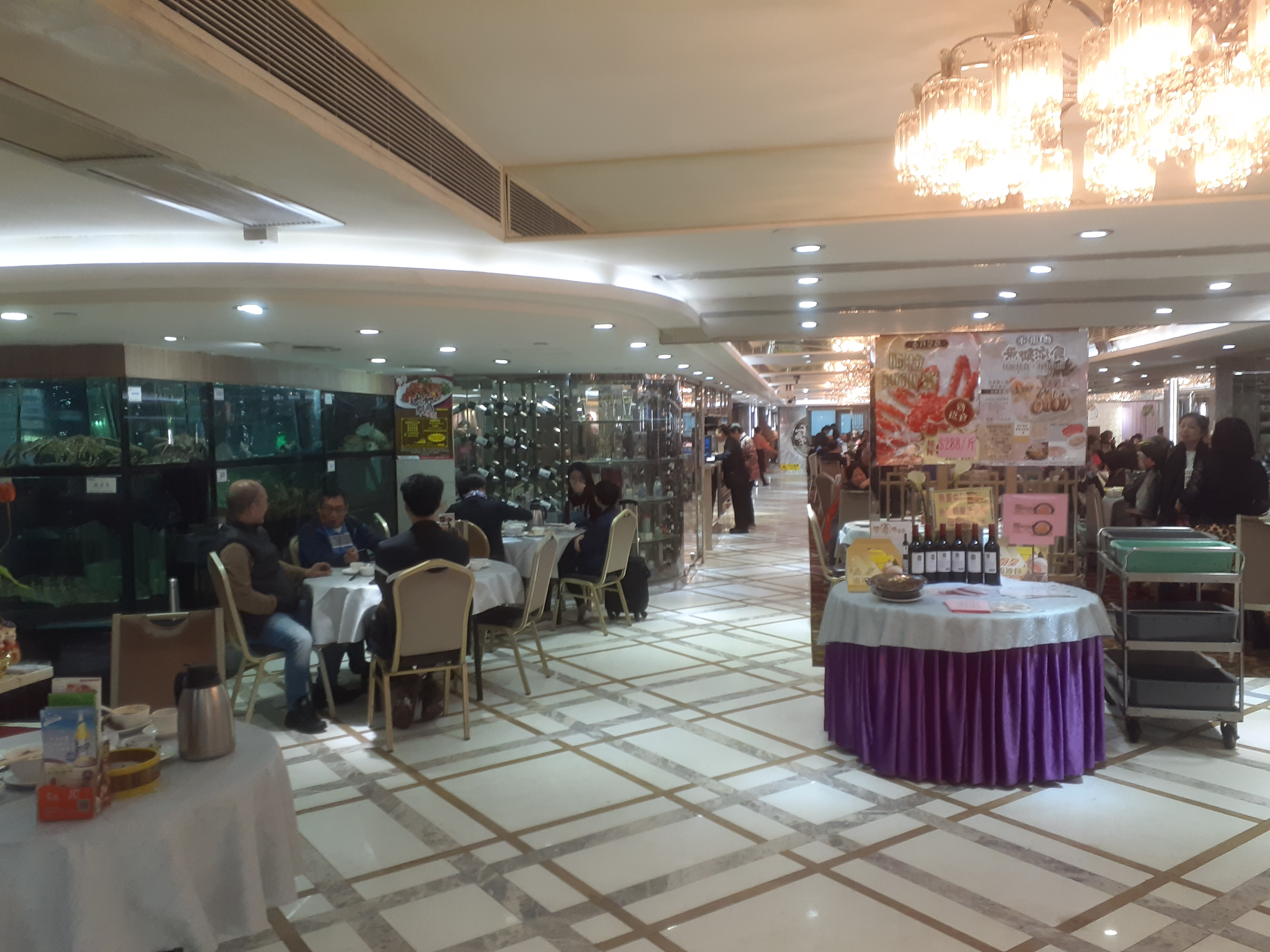 HK SSP 長沙灣道 833 Cheung Sha Wan Road 長沙灣廣場 Cheung Sha Wan Plaza mall shop 富臨酒家 Fulam Seafood Restaurant in December 2019